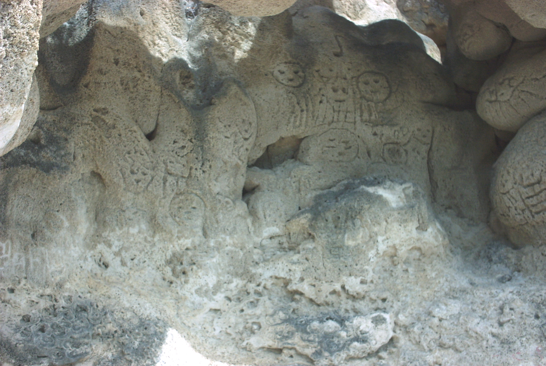 "Las Caritas": Taino inscriptions in rock formations near Lake Enriquillo, Dominican Republic - detail 02